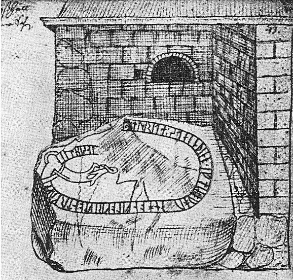 drawing of runestone U 374 by J. Peringskiöld in Monumenta 3 and B 27.